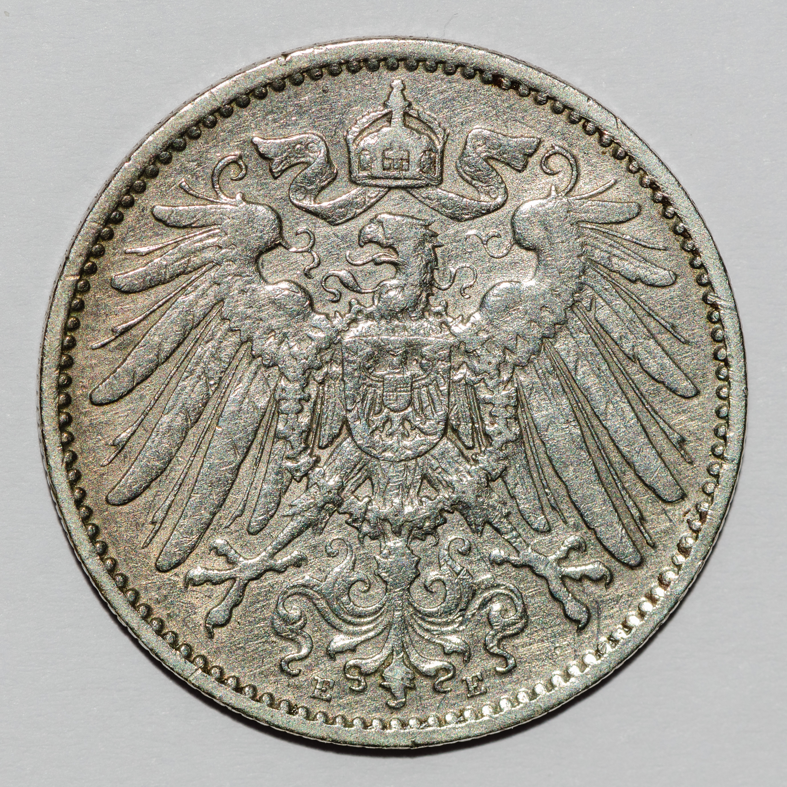 1 Mark from the German Empire, 1905, back